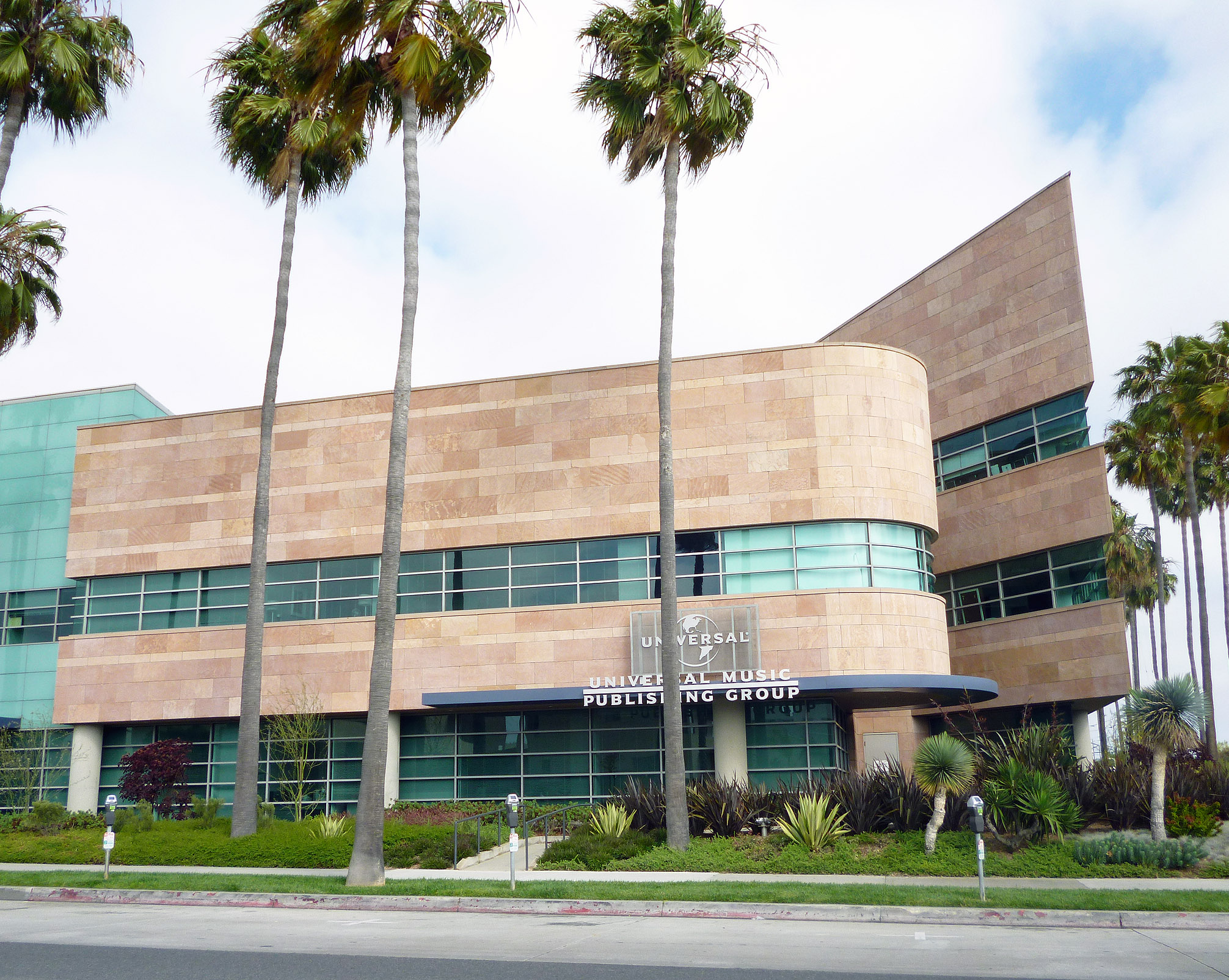 Universal Music Publishing Group headquarters in Santa Monica, California. Photographed by user Coolcaesar on June 16, 2012.